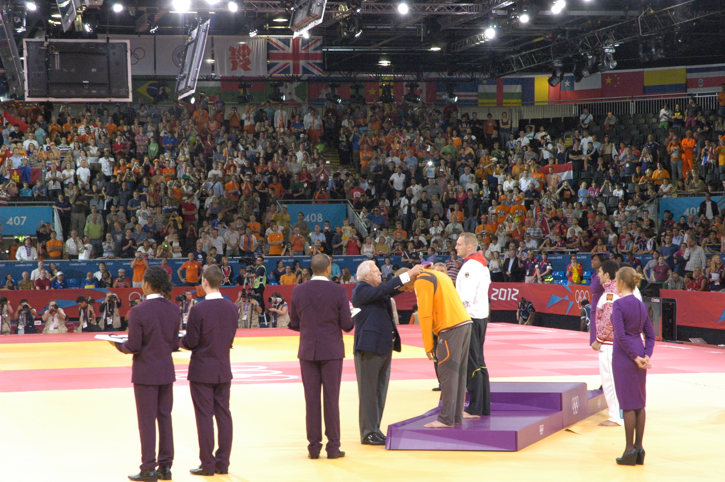 Podium Judo at the 2012 Summer Olympics – Men's 100 kg